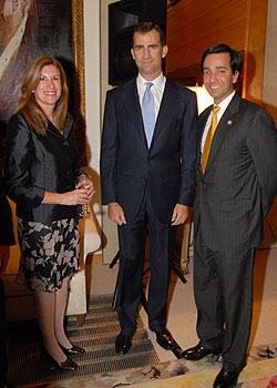 Prince Felipe (center) and Congressman Luis Fortuño (R- Puerto Rico)